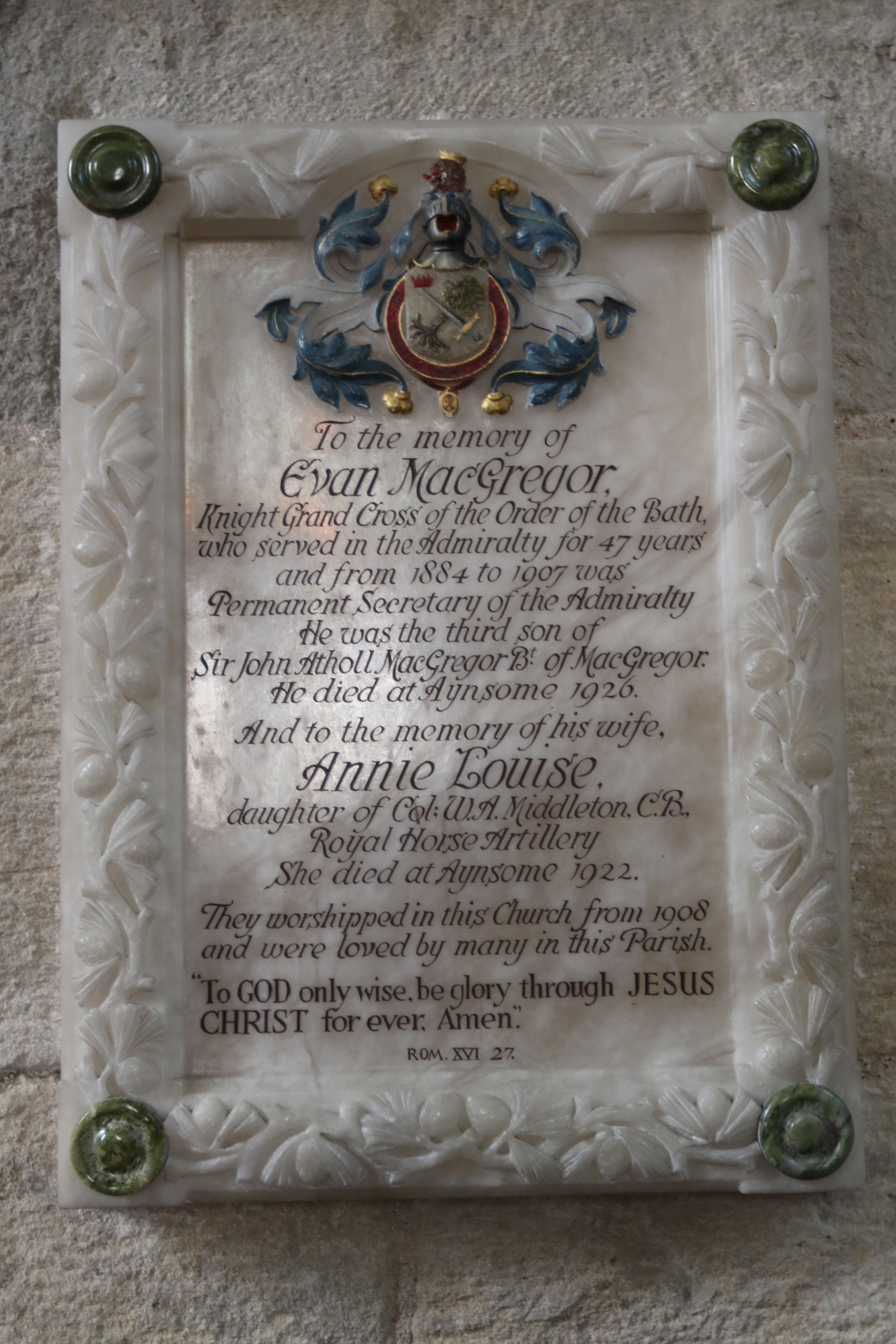 Evan MacGregor, Knight Grand Cross of the Order of the Bath, who served in the Admiralty for 47 years and from 1884 to 1907 was Permanent Secretary of the Admiralty. He was the third son of Sir John Atholl MacGregor, Bt of MacGregor. He died at Aynsome 1926. And to the memory of his wife, Annie Louise daughter of Col: W.A. Middleton, C.B. Royal Horse Artillery She died at Aynsome 1922.